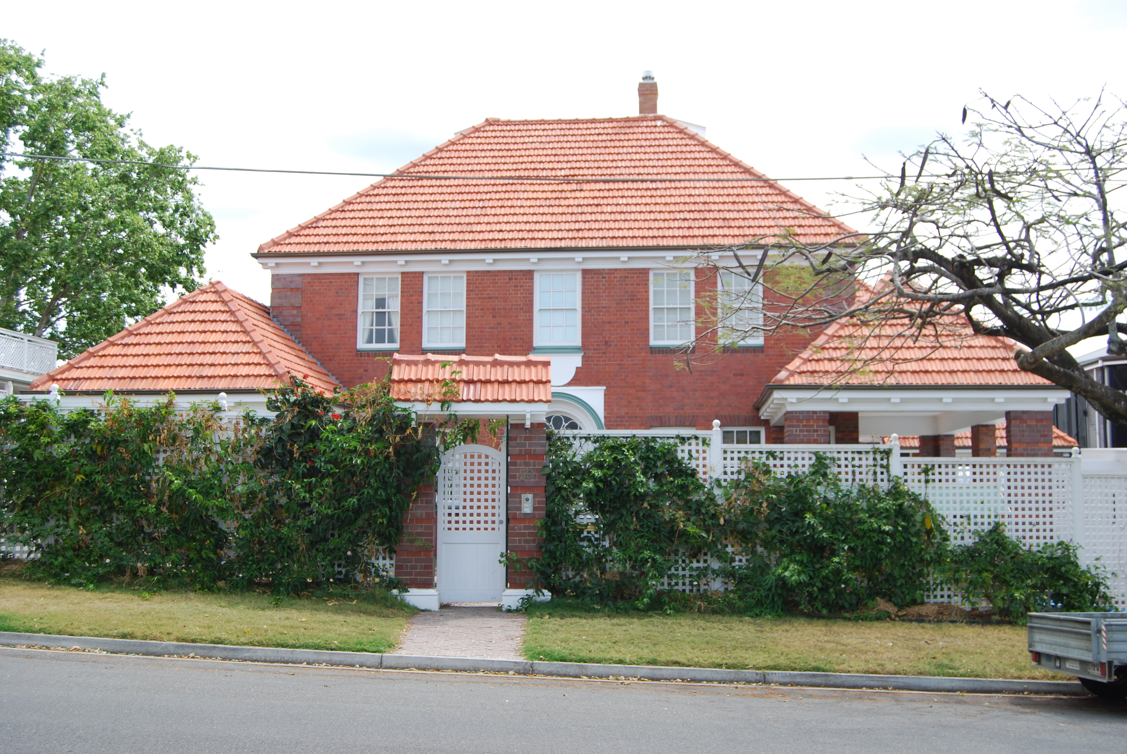 Lange Powell